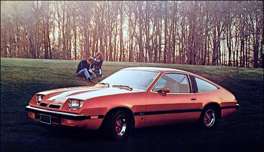 1975 Oldsmobile Starfire SX